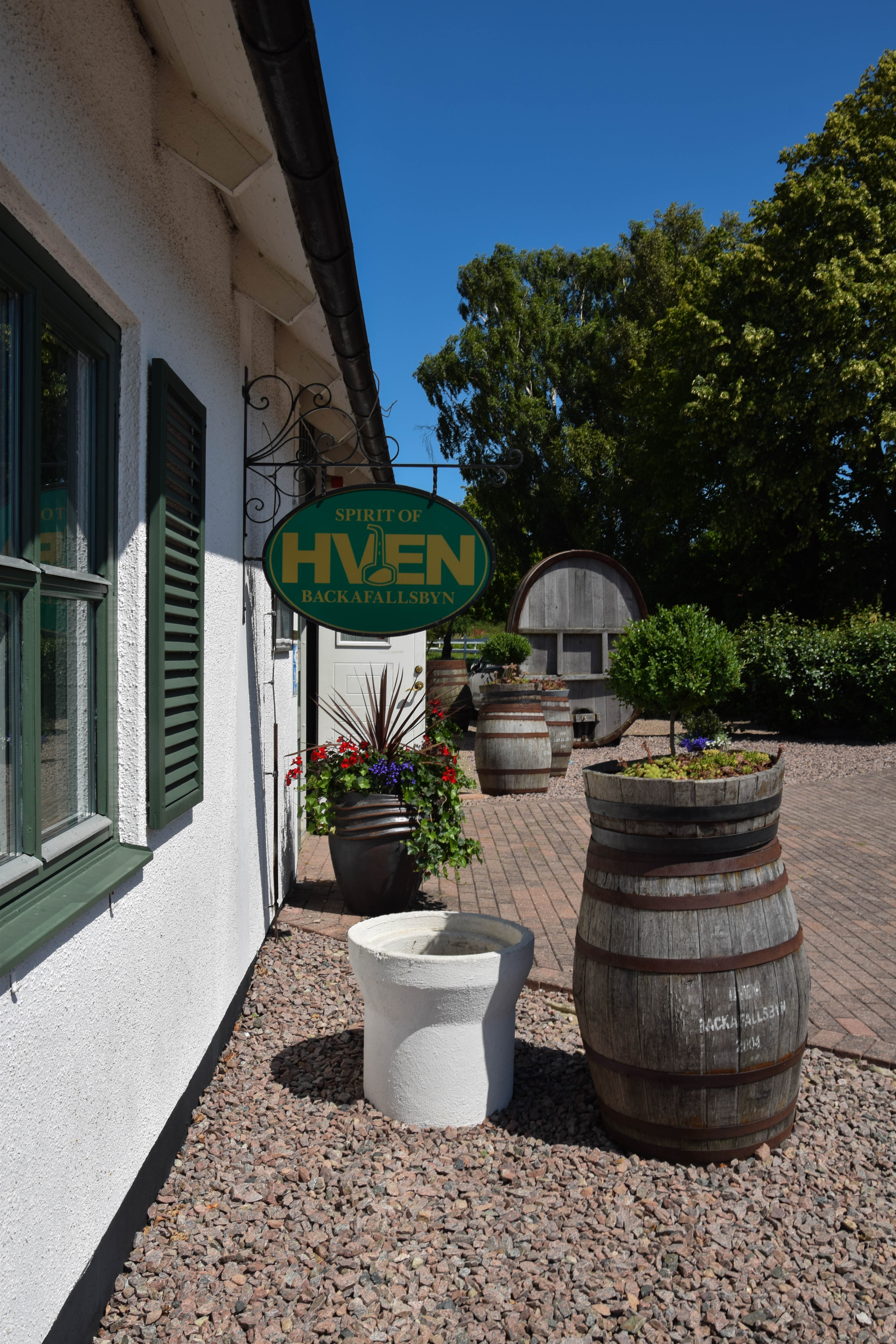 Spirit of Hven Backafallsbyn